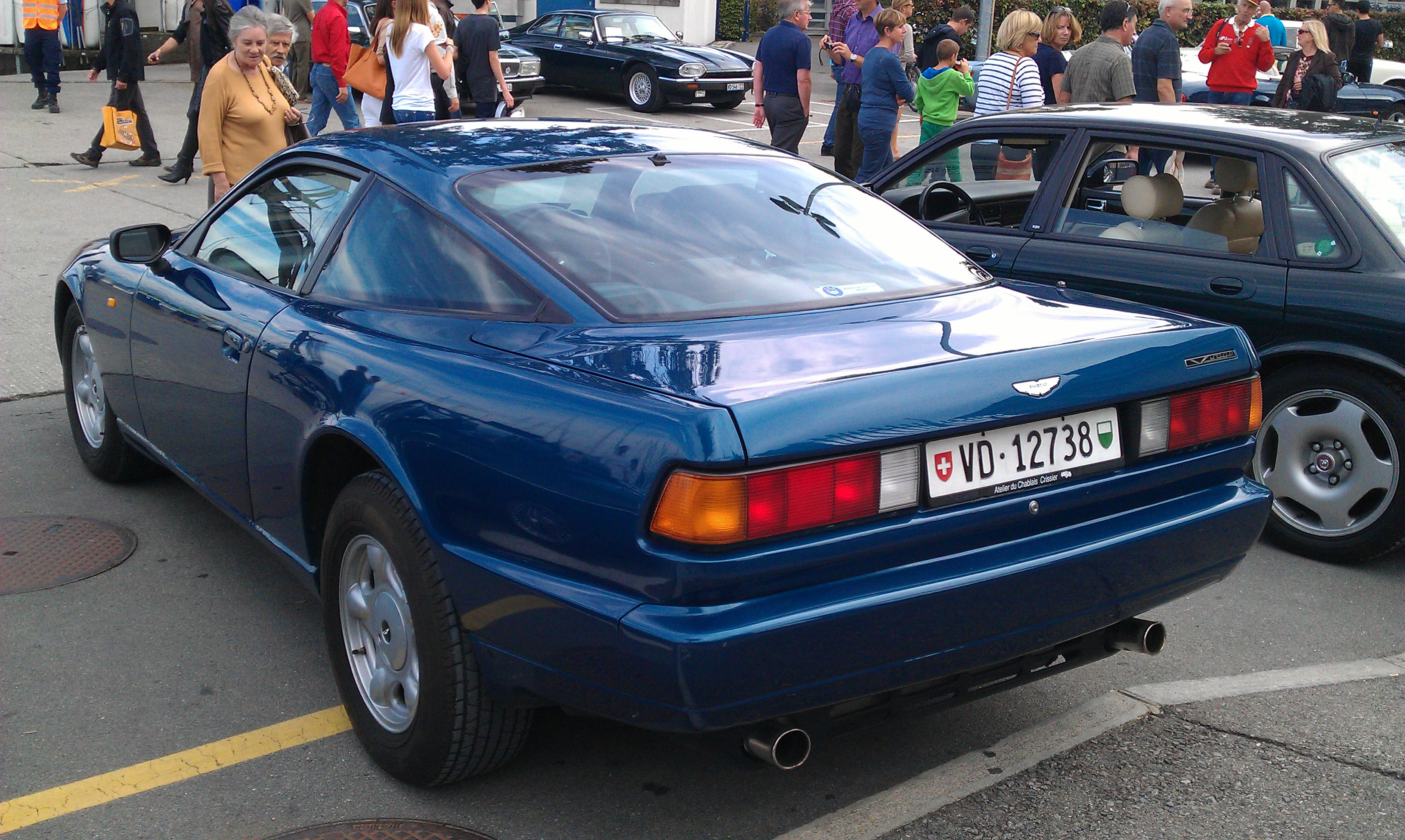 1997 Aston-Martin Virage